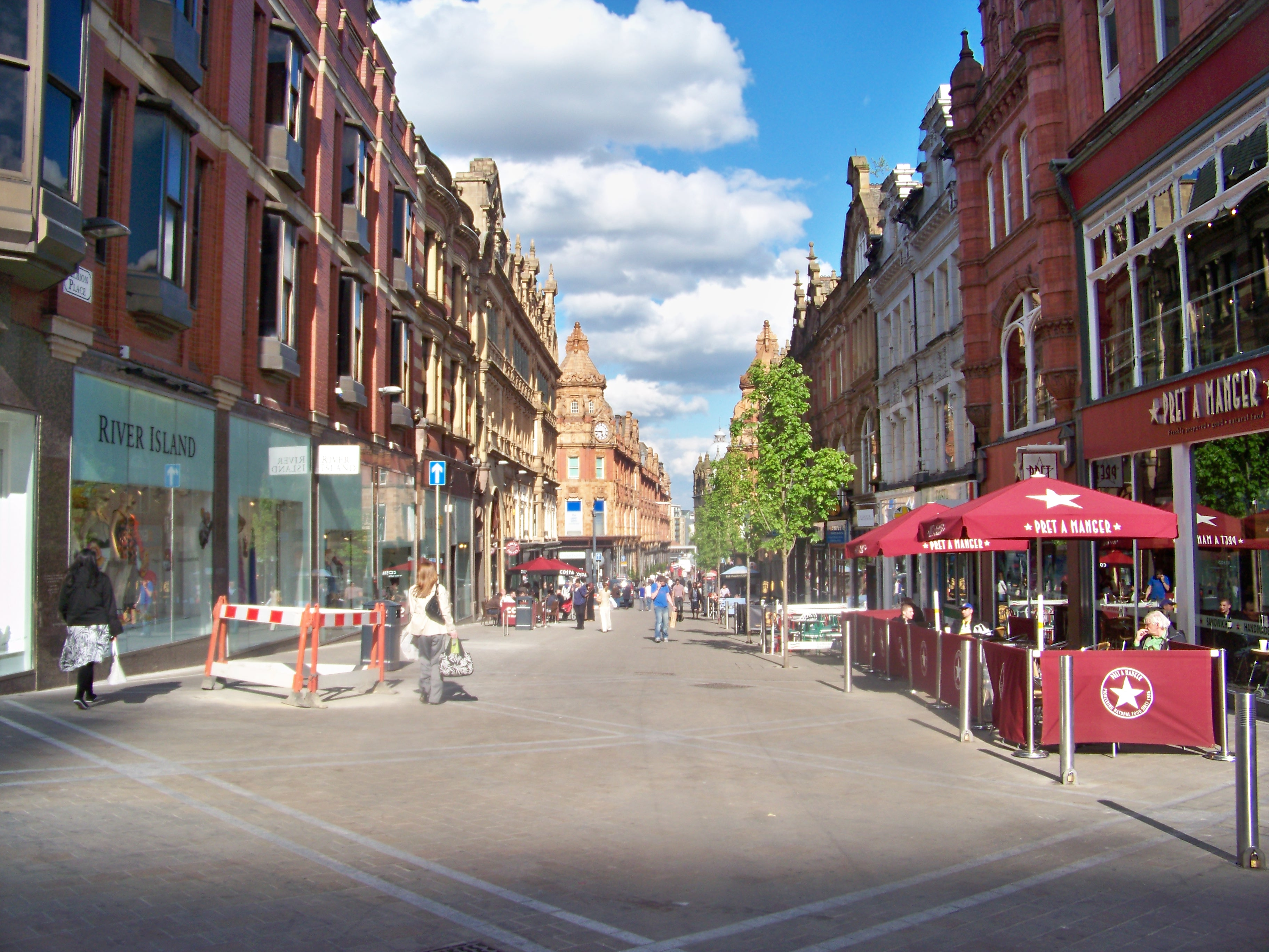 A view towards Briggate on Albion Place in Leeds, West Yorkshire. Taken on the evening of Thursday the 27th of May 2010.